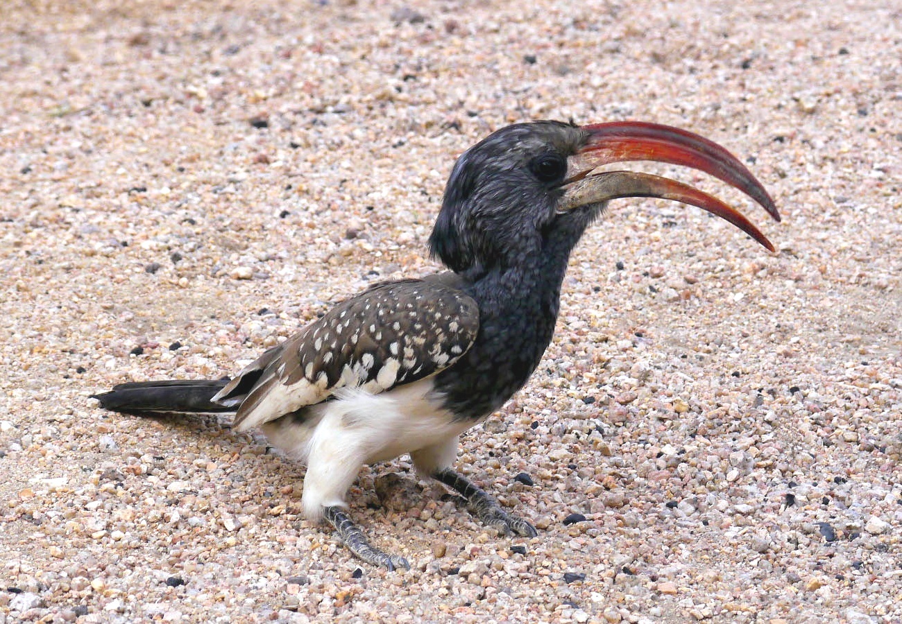 Adult male Monteiro's hornbill at Spitzkoppe in western Namibia